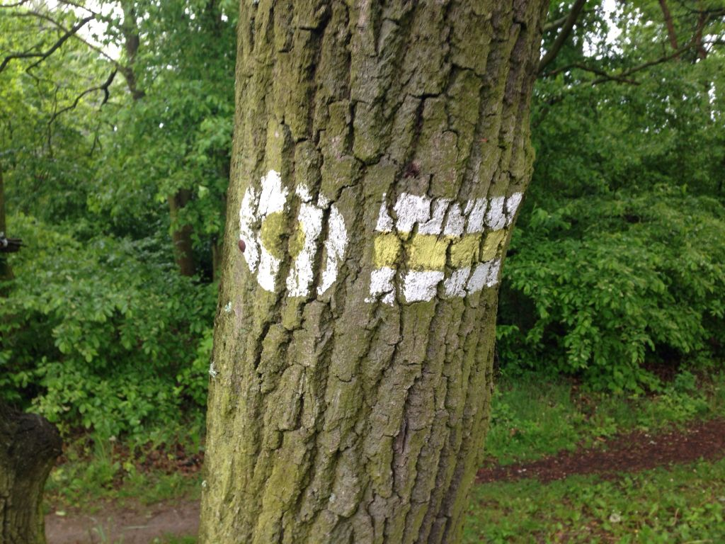 Begin of touristic path no 3574 Nowa Wieś Poznańska - Spławie (in Nowa Wieś)